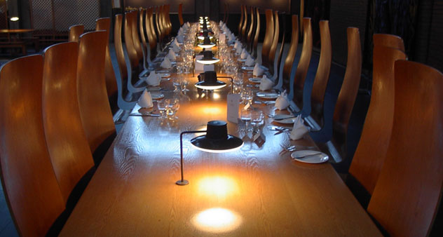 image provided by St. Catherine's College, Oxford; used with permission. image